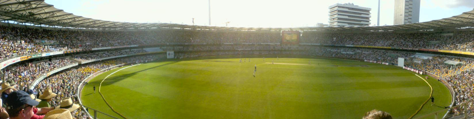 The Brisbane Cricket Ground (the GABBA) the 2nd day of the first ashes test 2006/2007 Author: Ryan Lerch